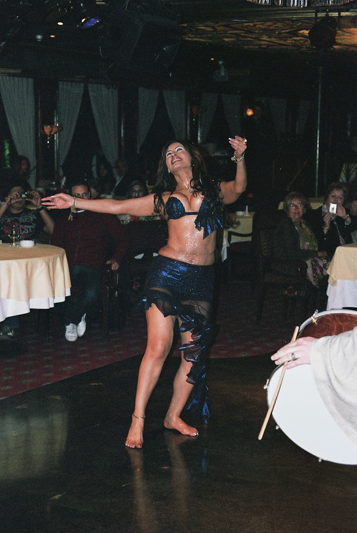 Egyptian bellydancer Randa Kamel dances in the floating restaurant Nile Maxim in Cairo (2007)